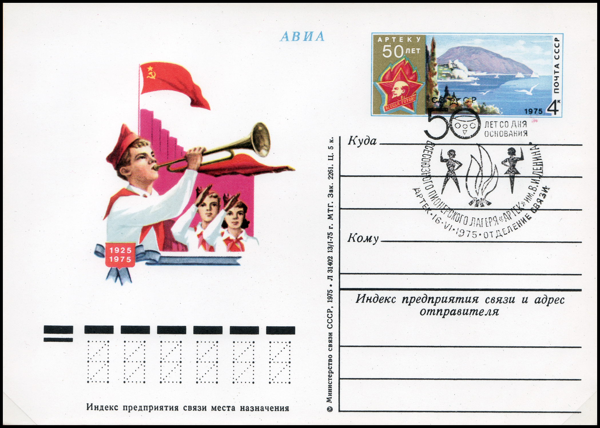 USSR, 1975. Postal card with commemorative stamp. Airmail. "The 50th anniversary of the All-Union Pioneer Camp "Artek" (CPA Catalogue №31). Stamp: View of the camp "Artek" and Ayu-Dag mountain in the Crimea; badge of the Pioneer organization. Illustration: Bugler and pioneers. Painter N. Shevtsov. Special cancellations: "50th anniversary of the All-Union Pioneer Camp"Artek" 16/06/1975 Artek, a post office.